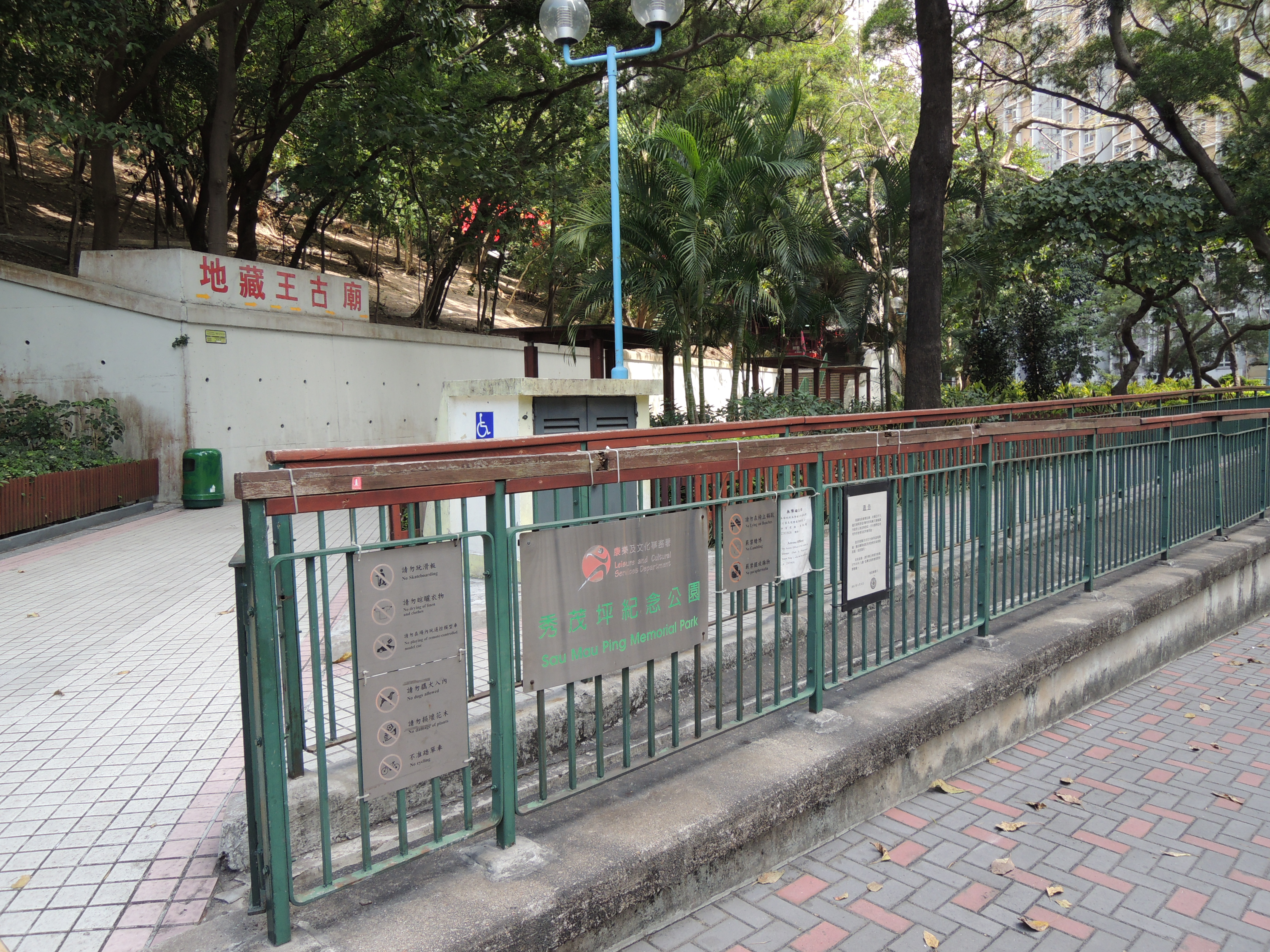 Sau Mau Ping Memorial Park (Kwun Tong, Kowloon, Hong Kong) 中文（香港）: 秀茂坪紀念公園 (香港九龍觀塘)